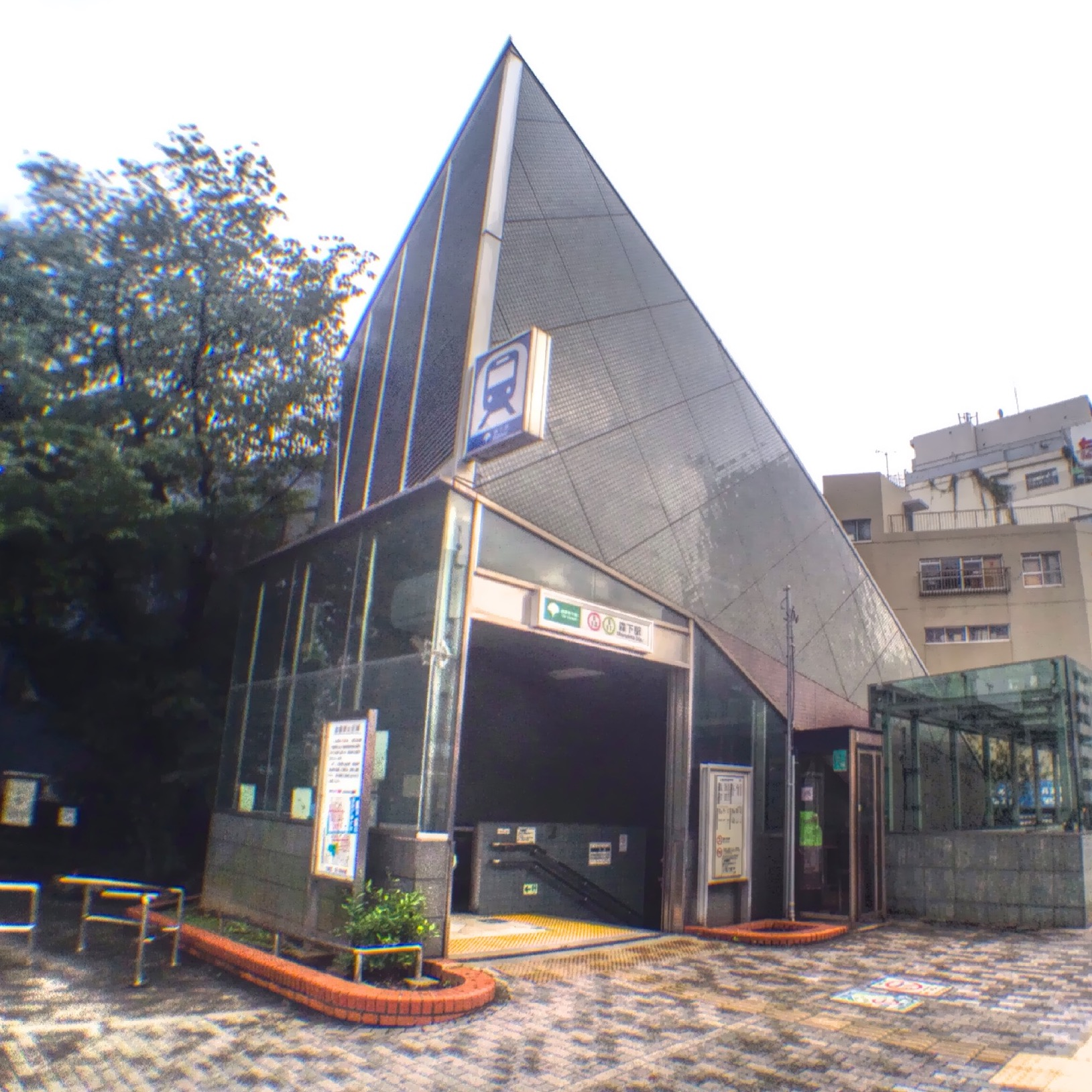 森下駅のA5出口 (morishita station A5 exit)